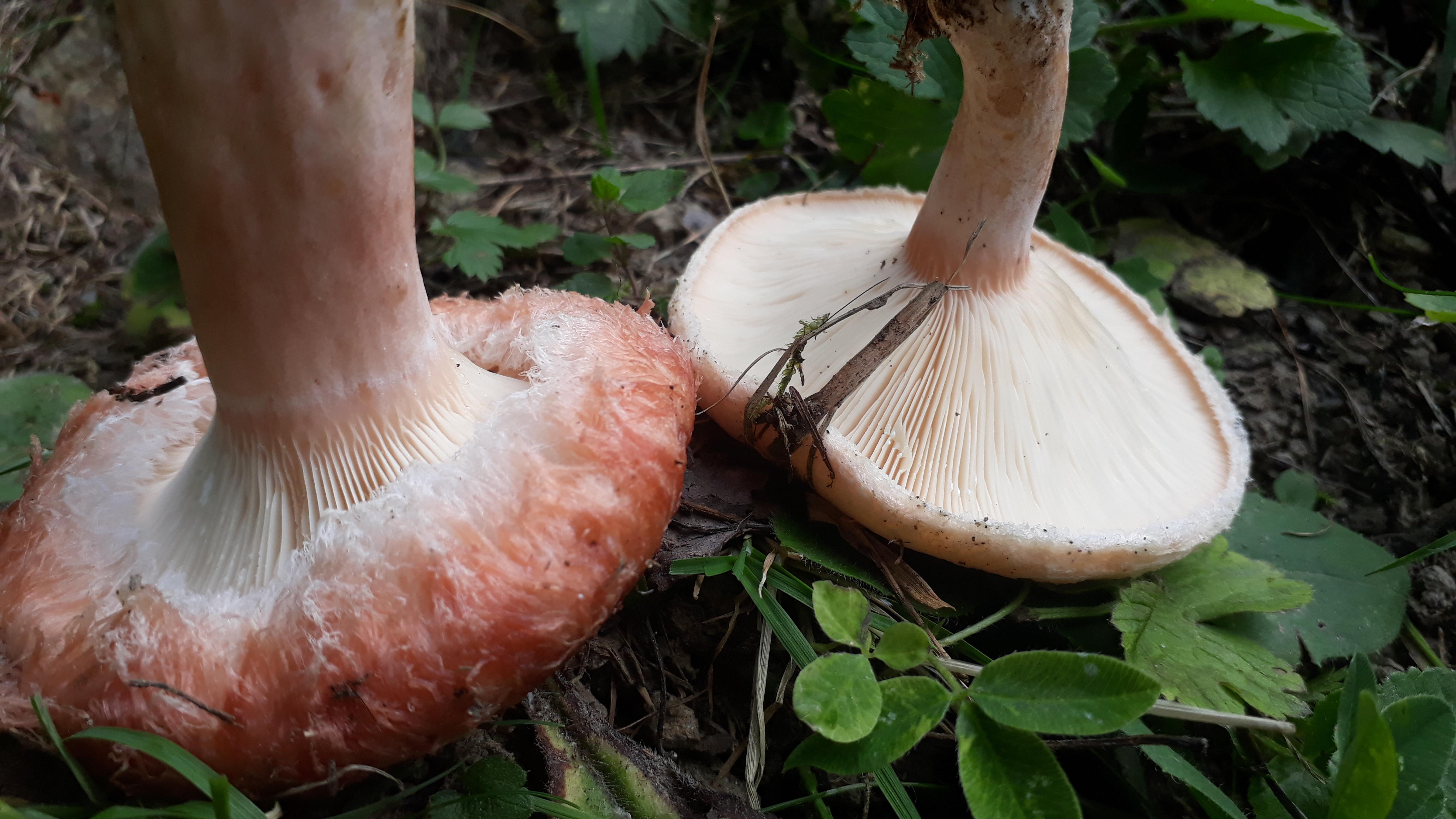 A comparison between Lactarius torminosus (left) and Lactarius pubescens (right)